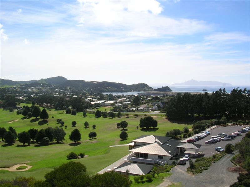 View of Mangawhai, Northland, New Zealand, from an observation tower; Taranga Island in the distance on the right